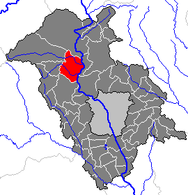 This map shows the area of the Gemeinde (municipality) Deutschfeistritz in the Bezirk (district) Graz-Umgebung, Styria, Austria.